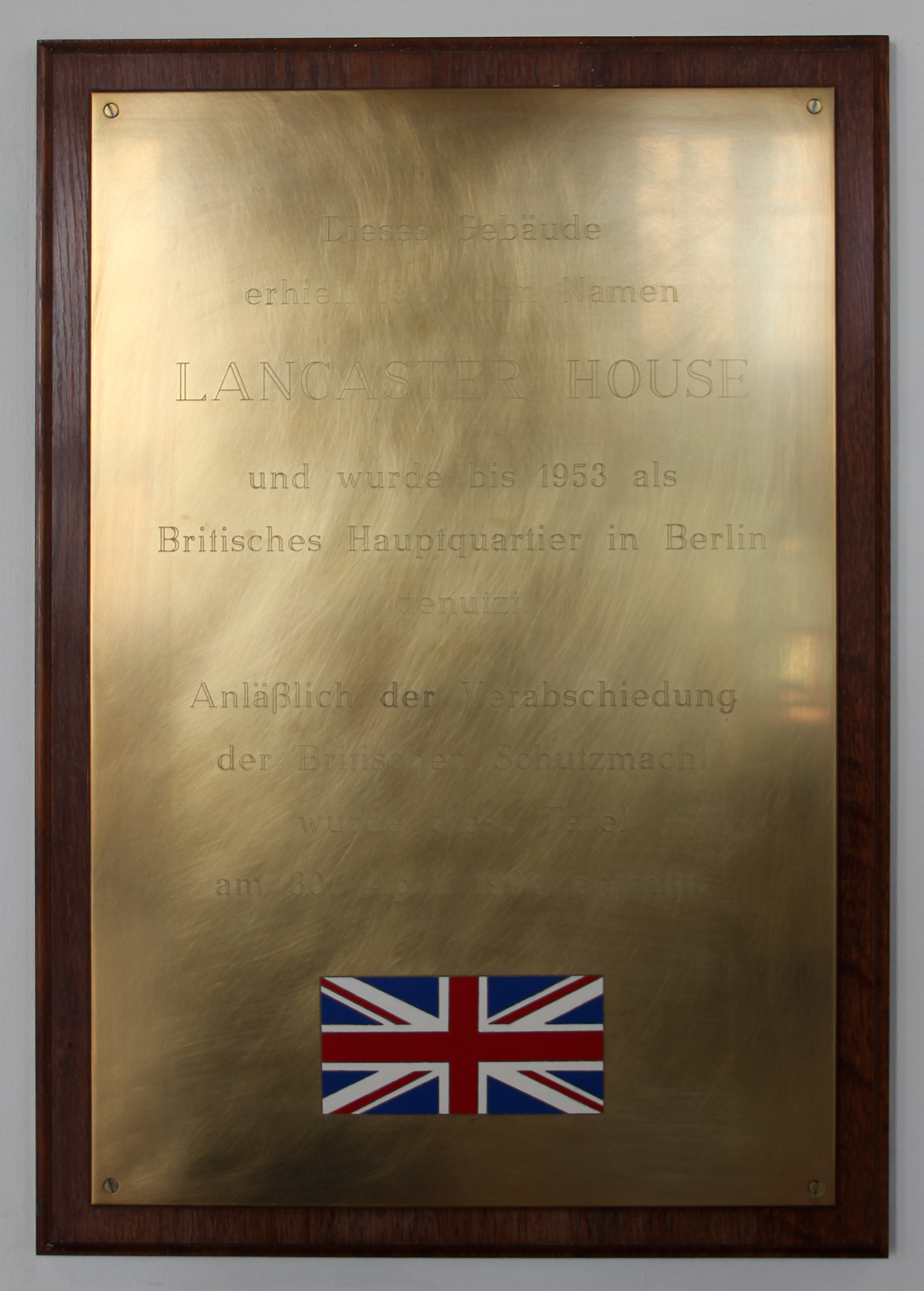 Memorial plaque, Lancaster House, Fehrbelliner Platz 4, Berlin-Wilmersdorf, Germany